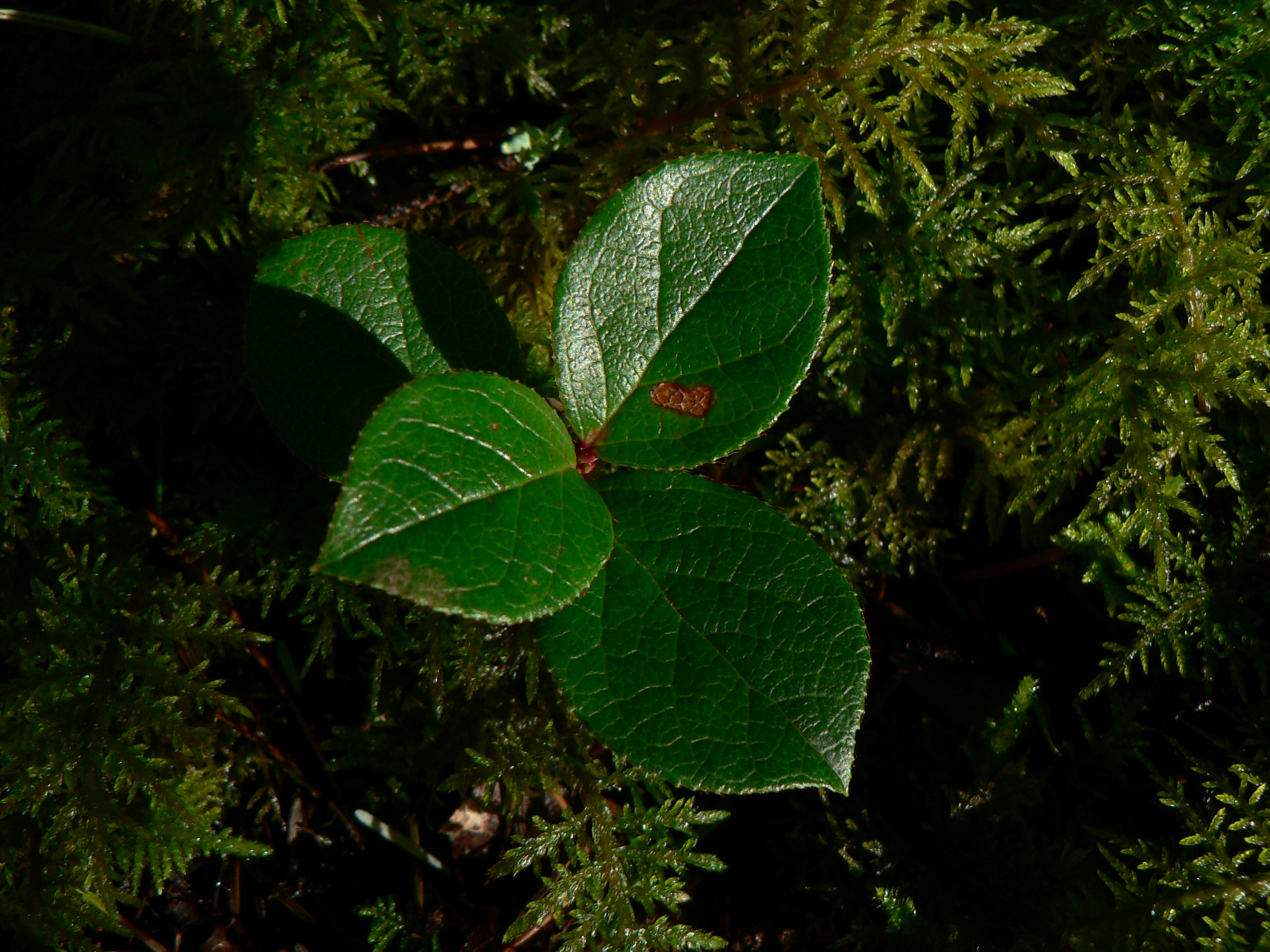 young Salal